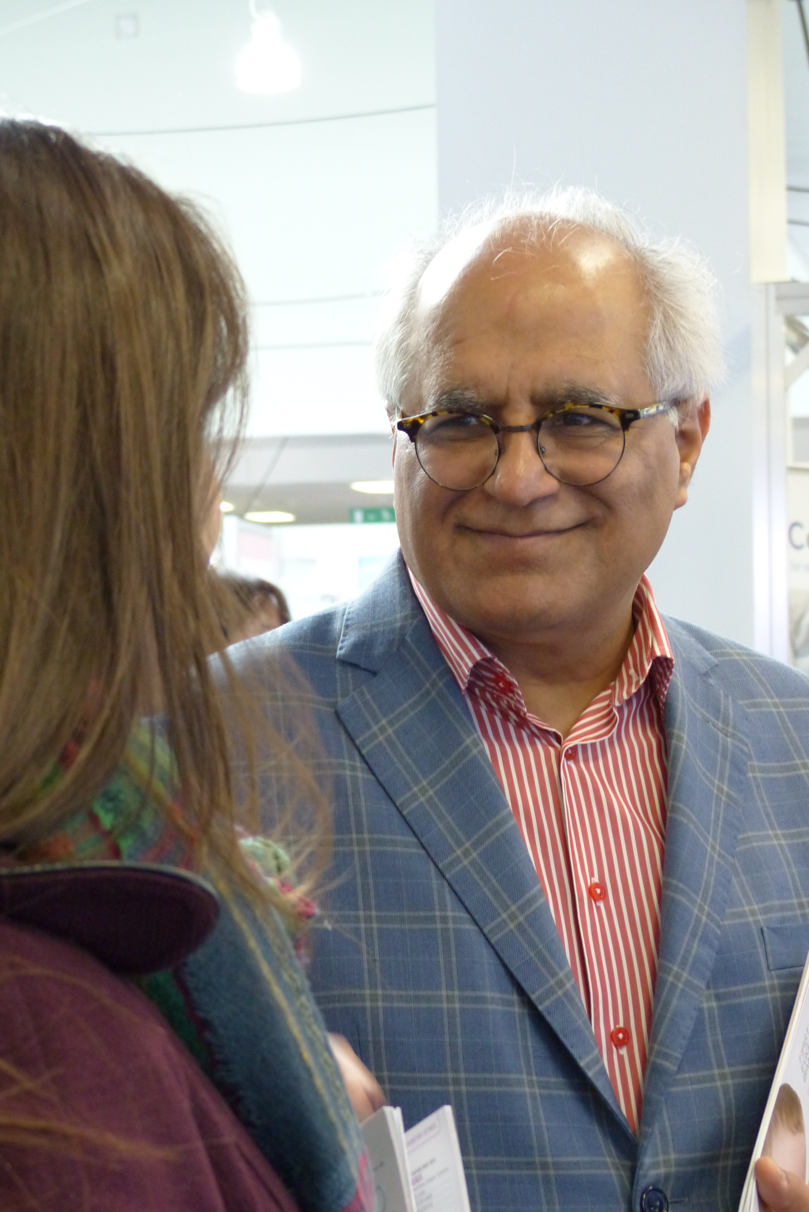 Dr. Kamal Ahuja at the Lonodn Fertility Show in 2016